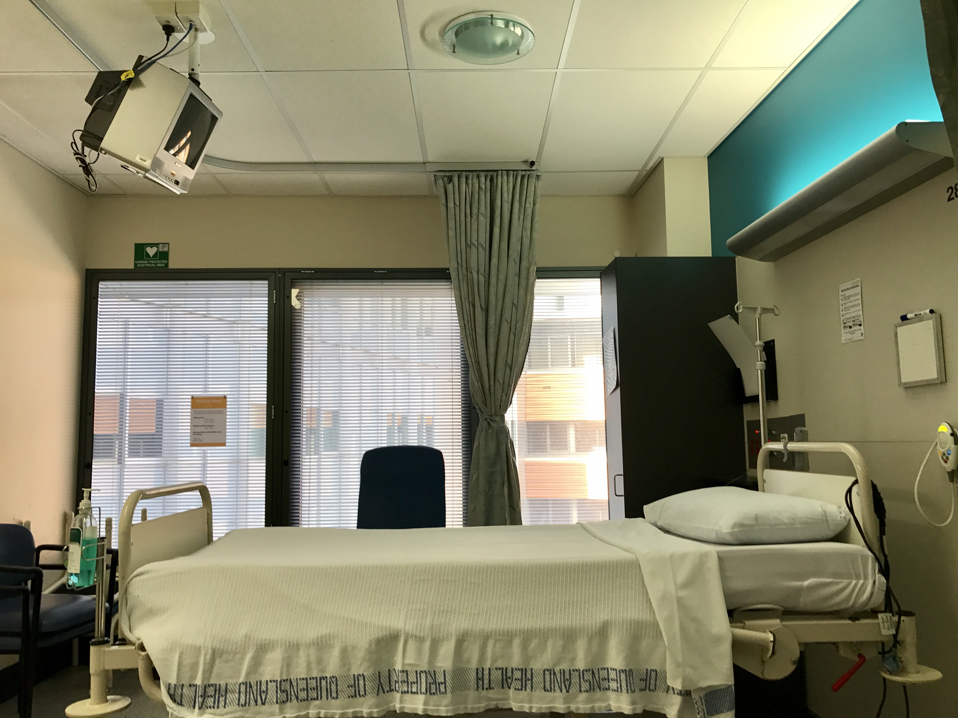 Princess Alexandra Hospital